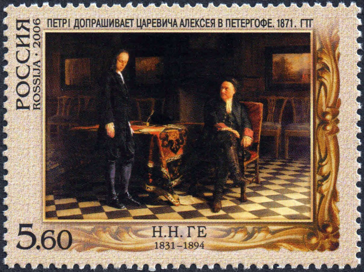 175th birth anniversary of the Russian painter Nikolai Ge (1831–1894). Peter the Great Interrogating the Tsarevich Alexei Petrovich in Peterhof by Nikolai Ge. 1871. The stamp of Russia, 5.60 Rubles, 16 February 2006, PTC Marka Catalogue No 1076, Michel No 1308, Scott No 6943 . Coated paper. Offset printing. Perforation: comb 12. Size of the stamp: 50×37 mm. Print run: 580,000.